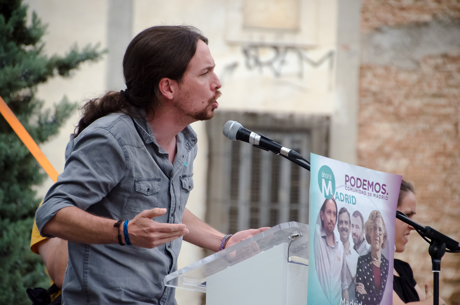 Pablo Iglesias during the election campaign of May 2015.